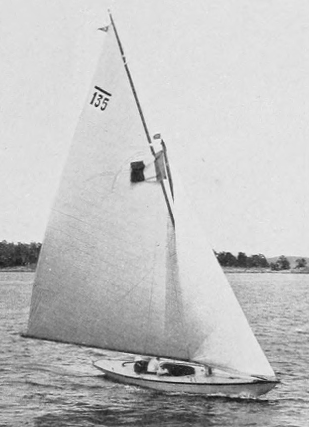 French 6 m class s/y Mac Miche. Gold medallist 1912 olympics